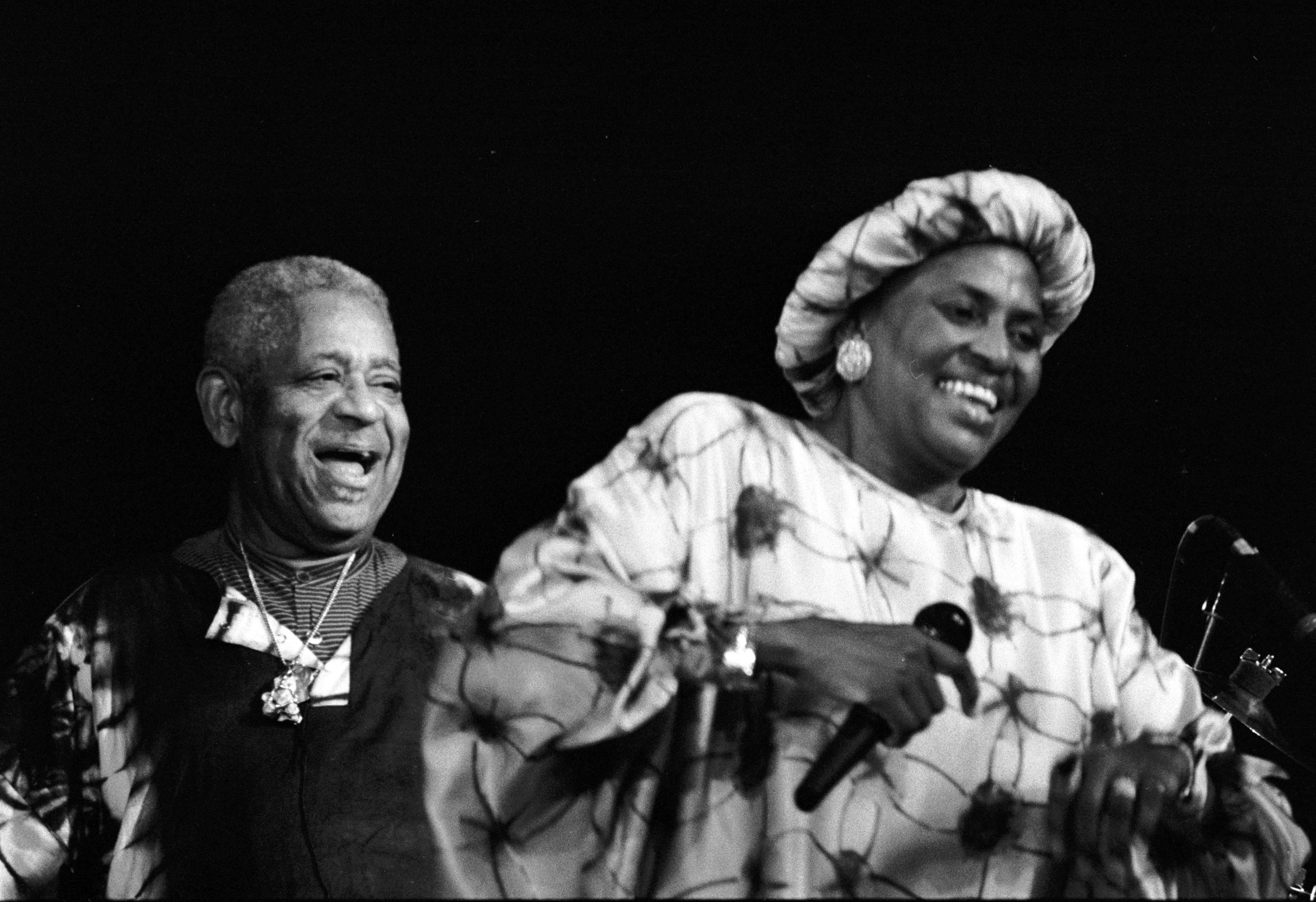 Miriam Makeba and Dizzy Gillespie in concert, Deauville (Calvados, France).